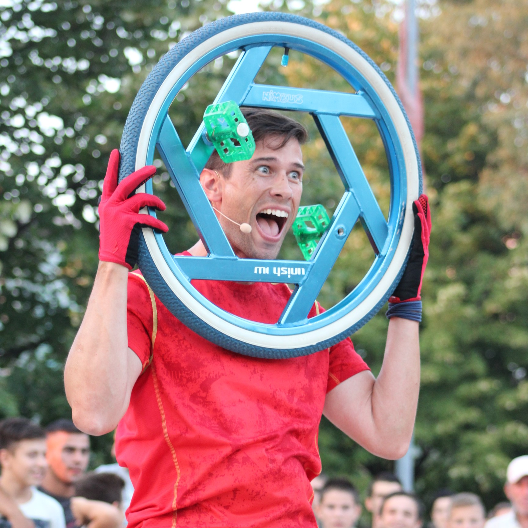 Dustin Kelm performs the UniShow on tour in Lac Albania.